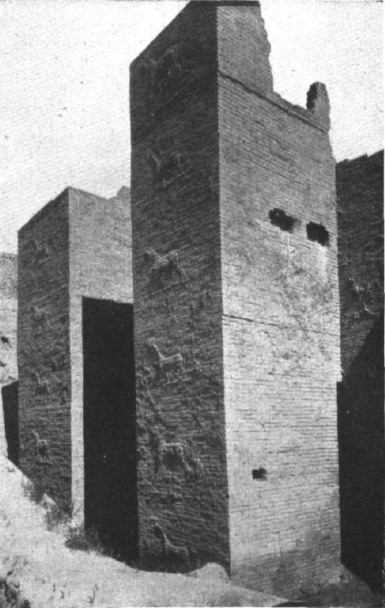 The eastern pillars of the Ischtar gate